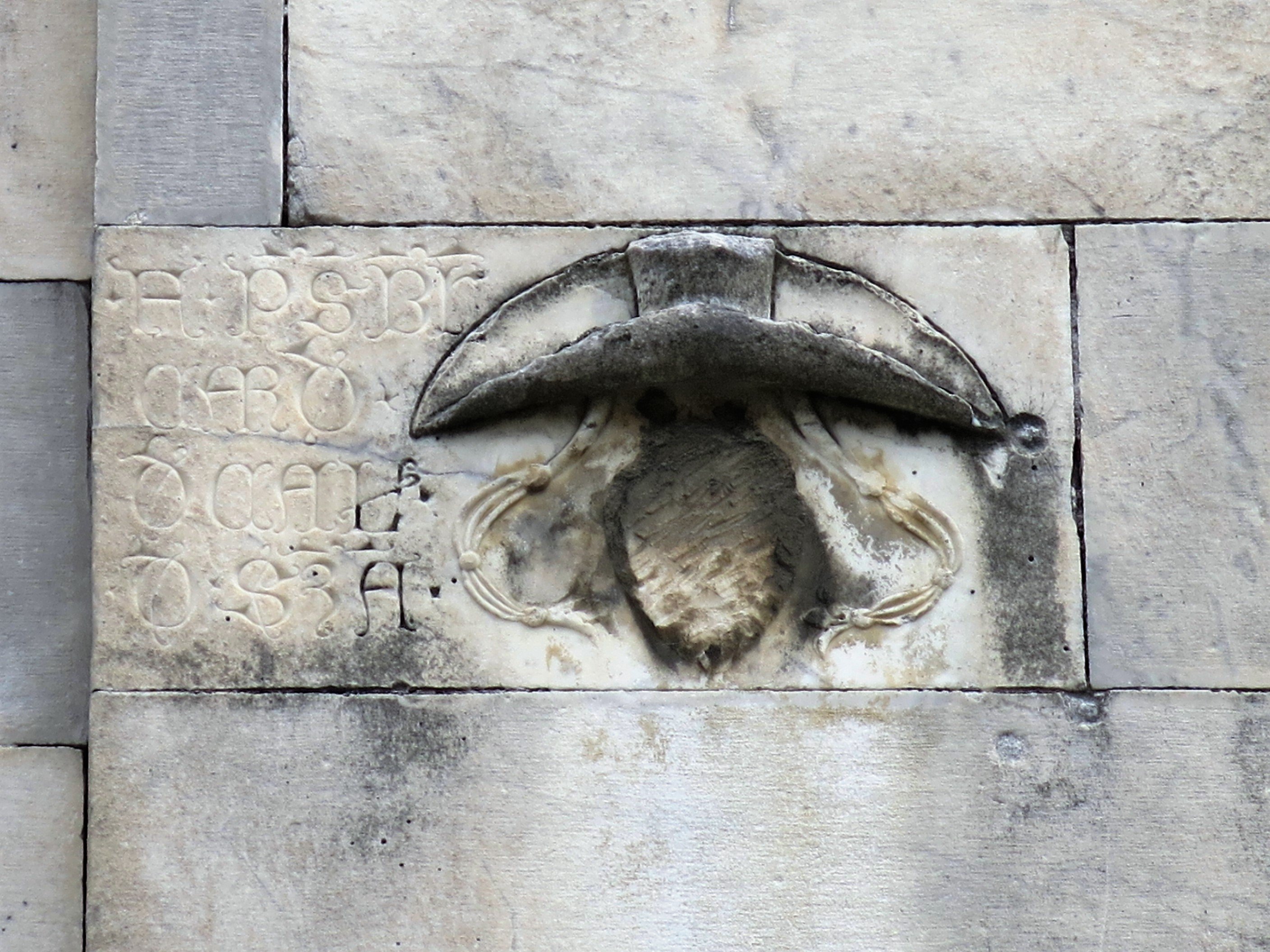 Relief on a wall of the church Sant Andrea in Sarzana (Liguria, Italy) dedicated to the cardinal Filippo Calandrini born in this town. The inscription F.PSBI.CRD.CAL.D.SZA means Fillipo presbitero cardinale Calandrini di Sarzana.